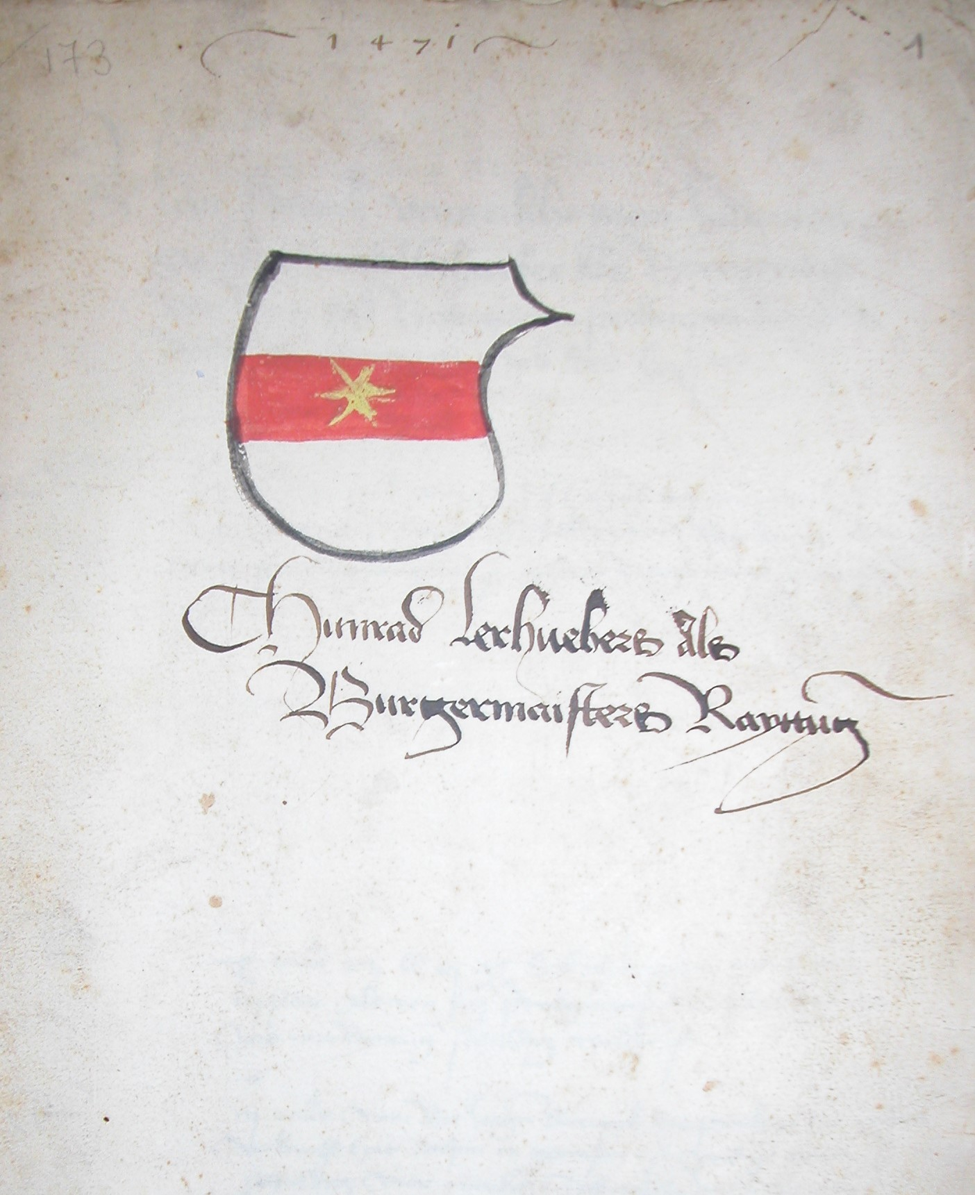 Cover of the civic accounting book of Bozen-Bolzano's mayor Konrad Lerhueber from 1471, with the town's coat of arms